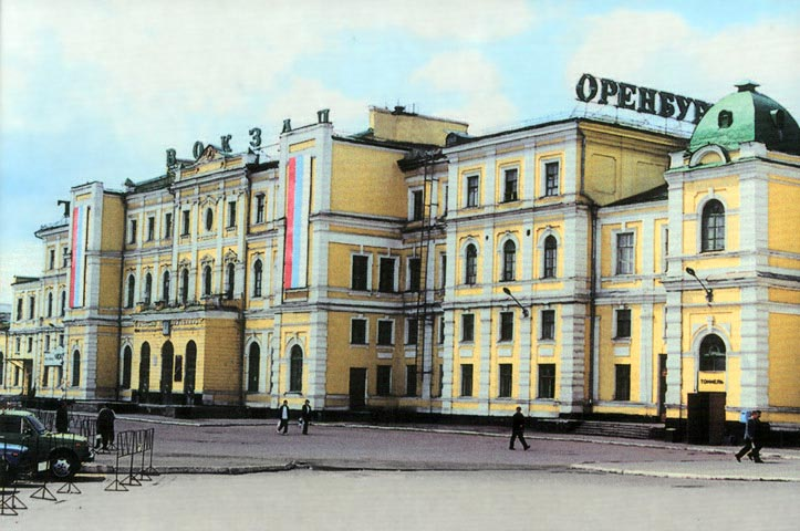 Trainstation of Orenburg, Russia